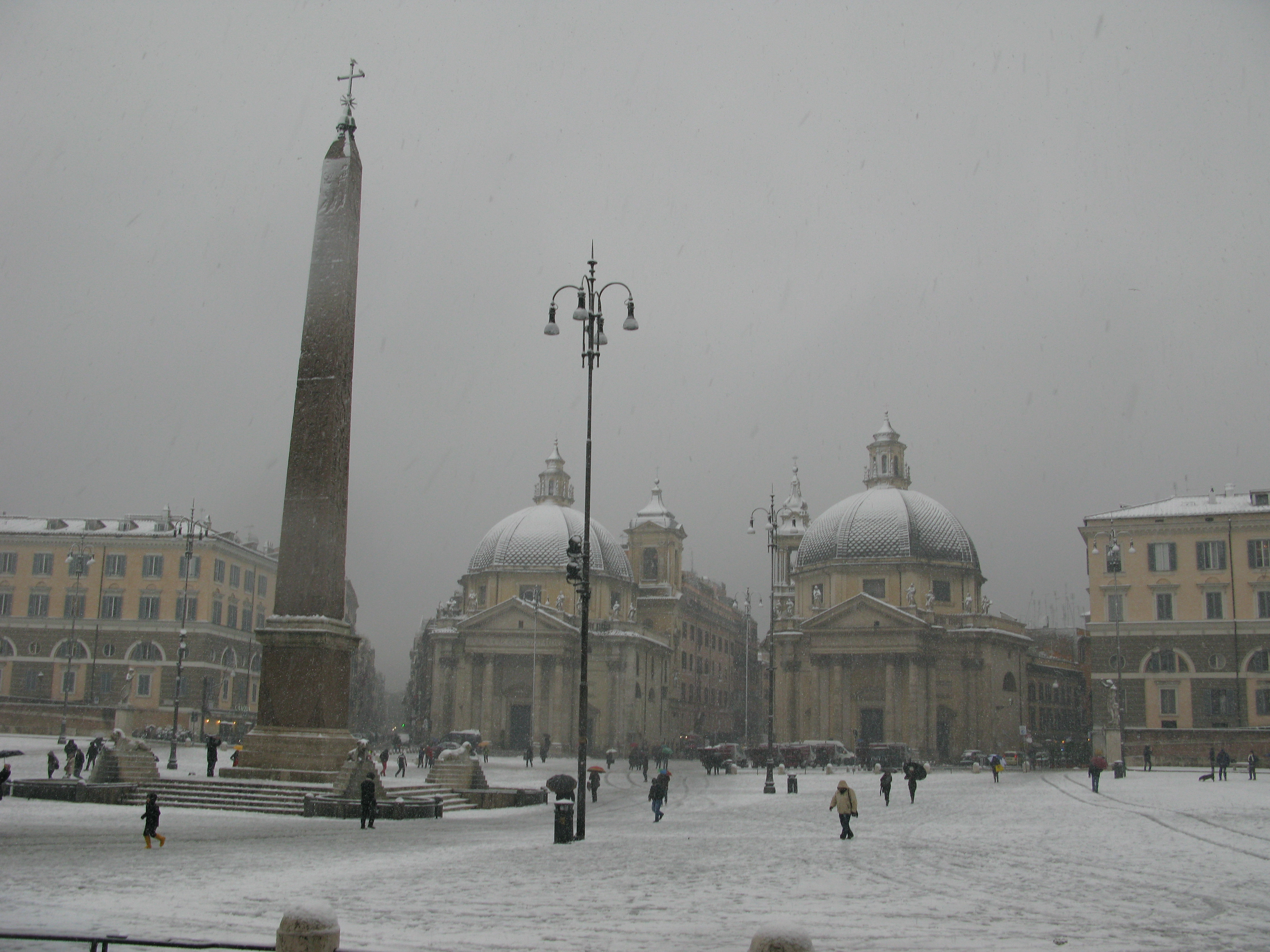 Piazza del Popolo under 3-2-2012 snowfall.